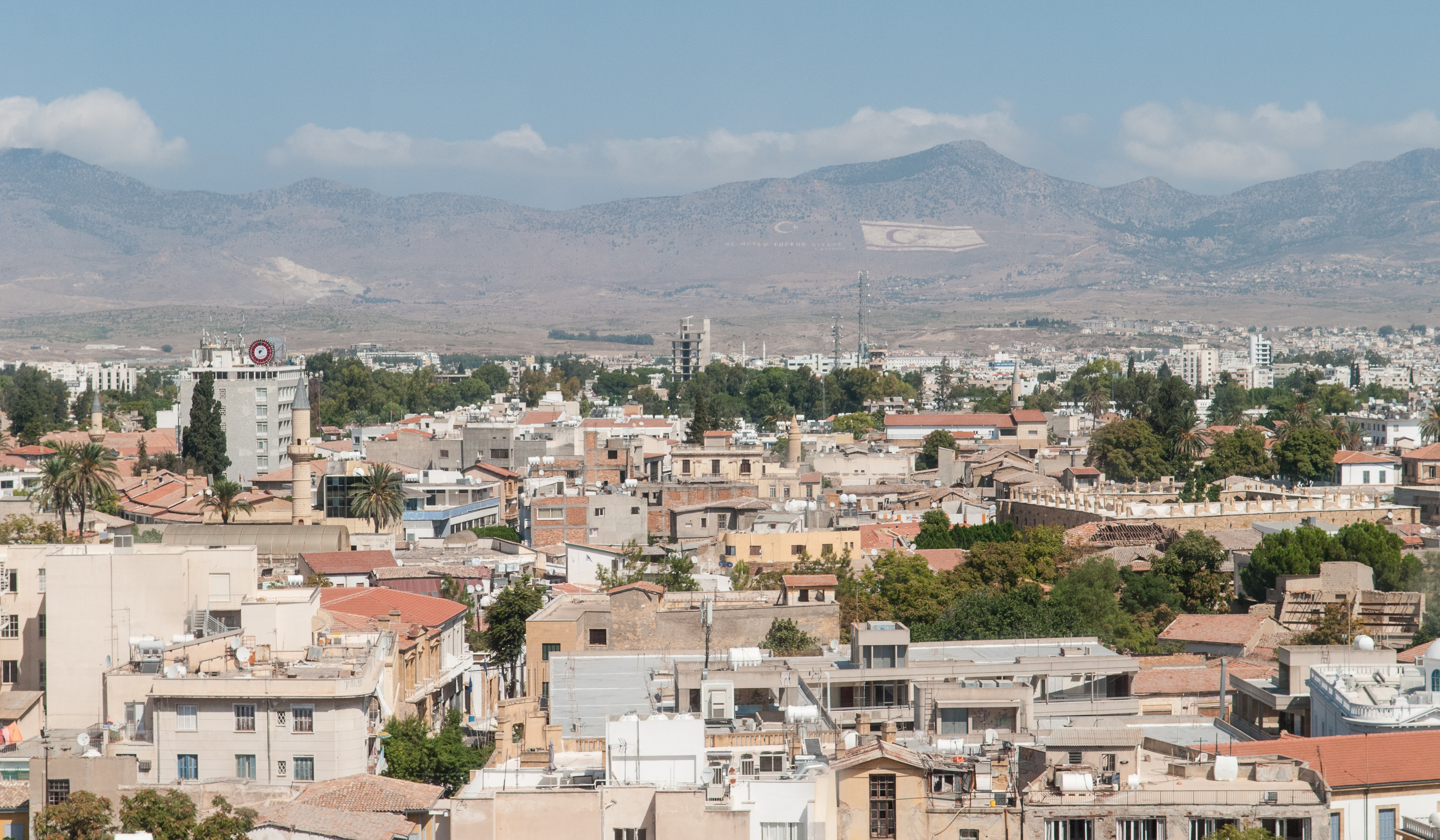 View on the Turkich side of the island